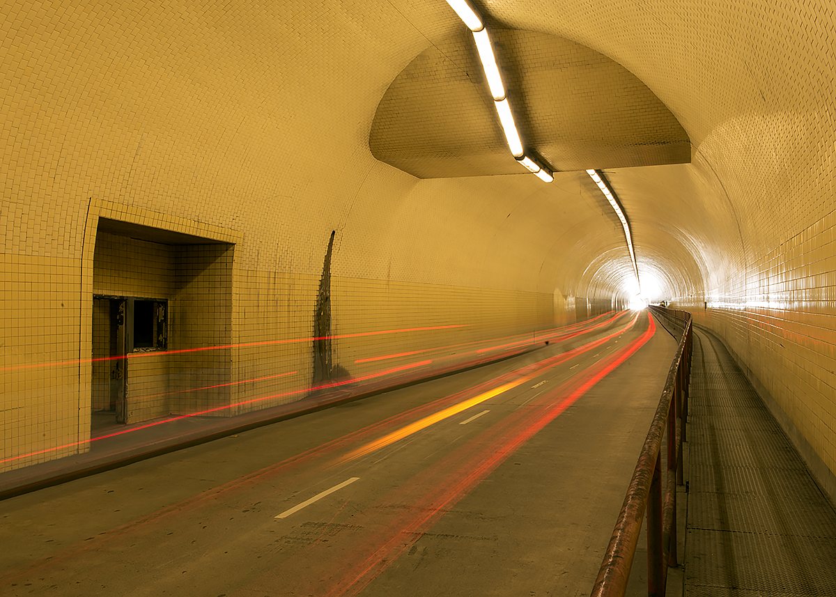 Westbound tunnel, facing west.